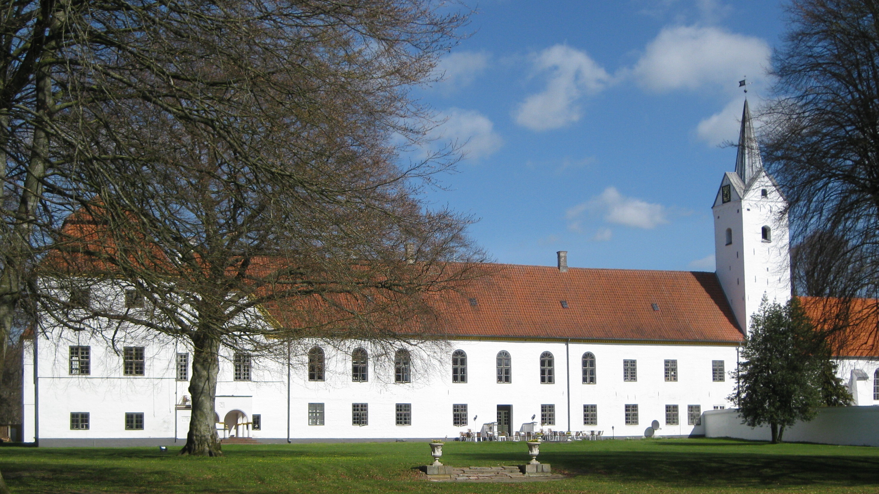 The castle "Dronninglund Slot" close to the small town "Dronninglund". The town is located in North Jutland, Denmark.